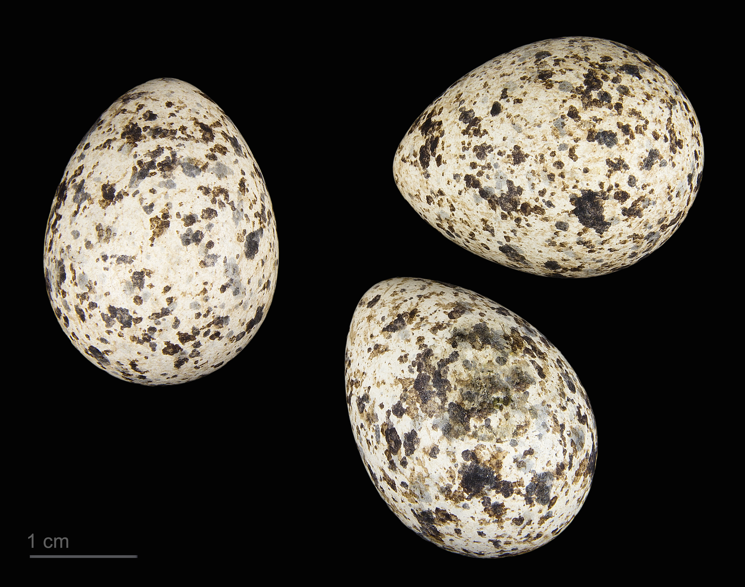 Eggs of common buttonquail Three specimens of the same spawn ; collection of Jacques Perrin de Brichambaut.